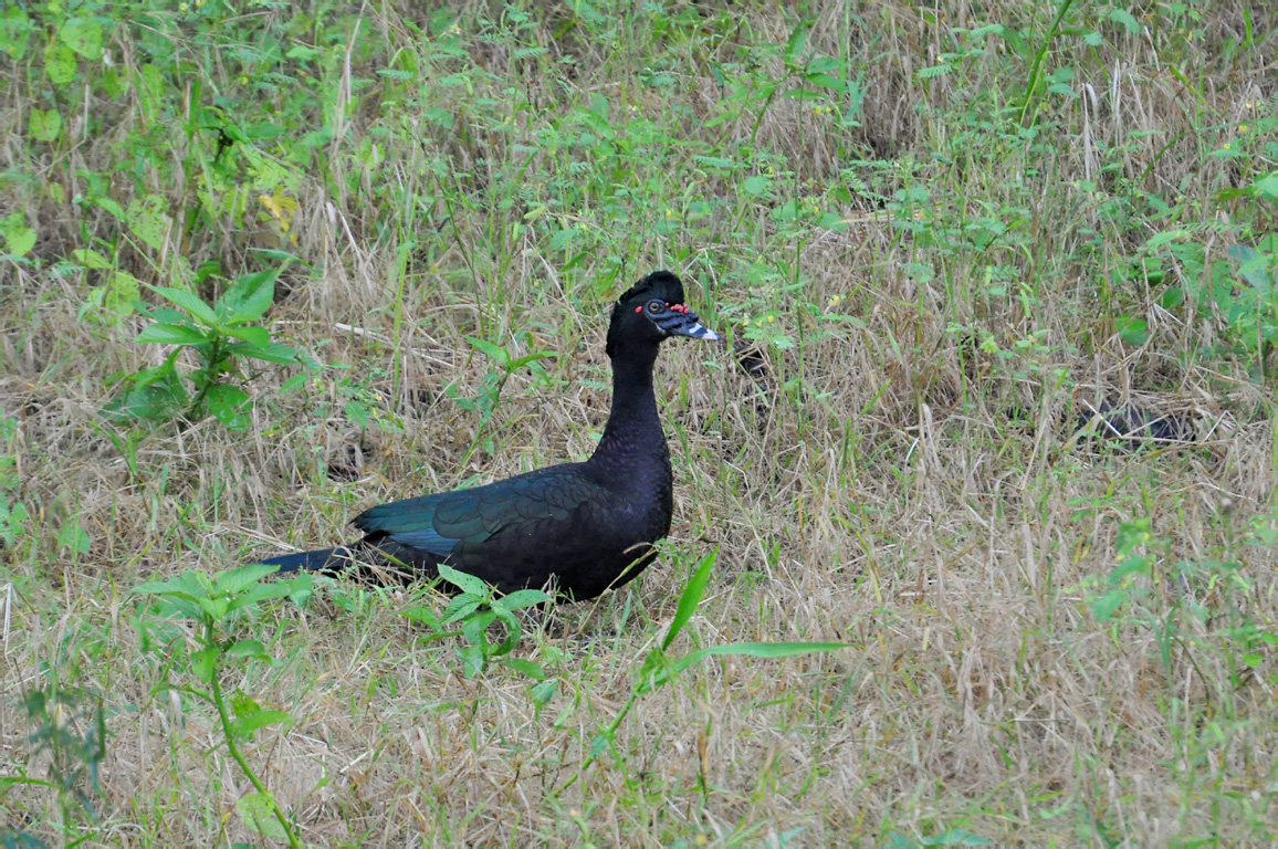 A Muscovy Duck in Uarini, Amazonas, Brazil.